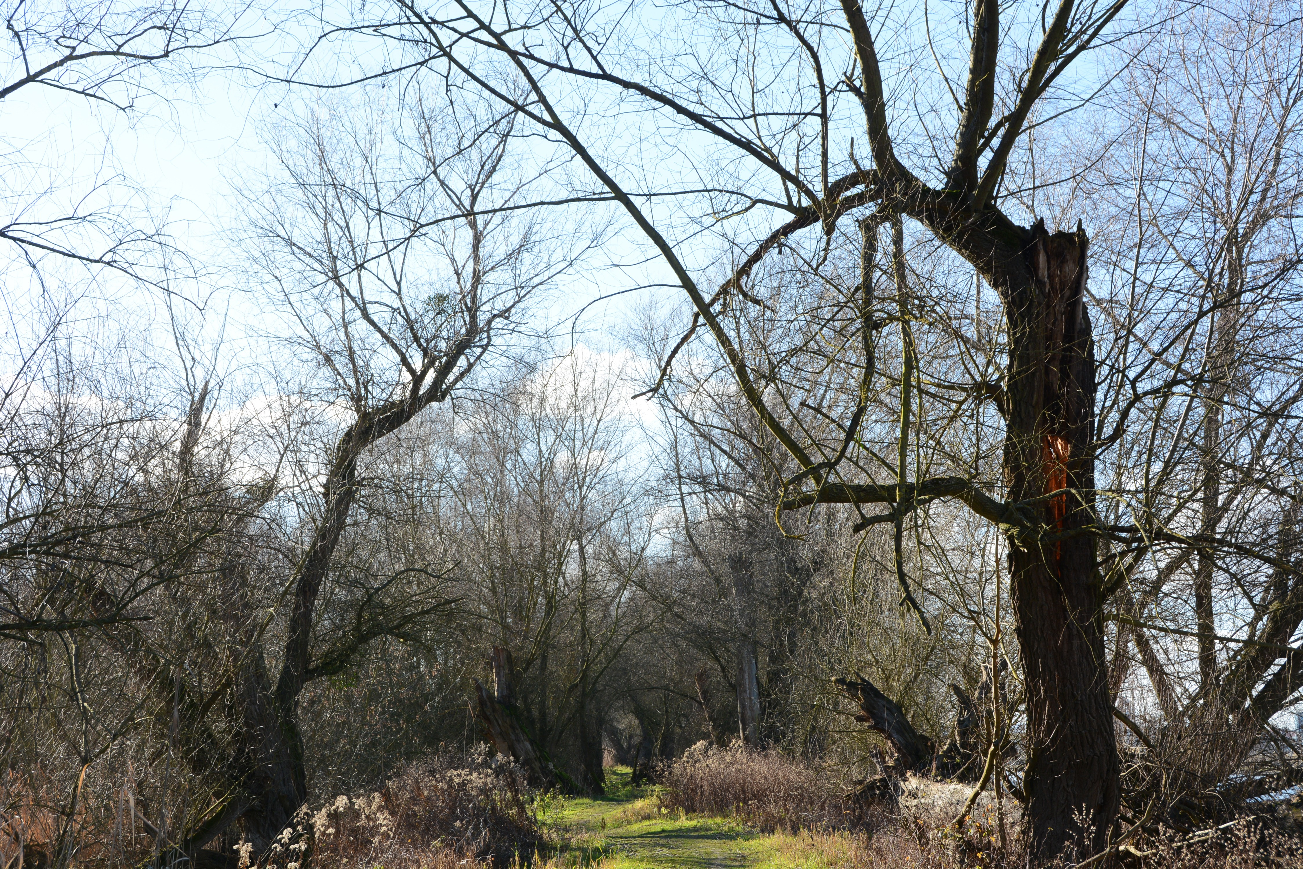 Nature reserve "Reißinsel" (Reiss island) Mannheim, Germany, protected forest, trail along the Rhine